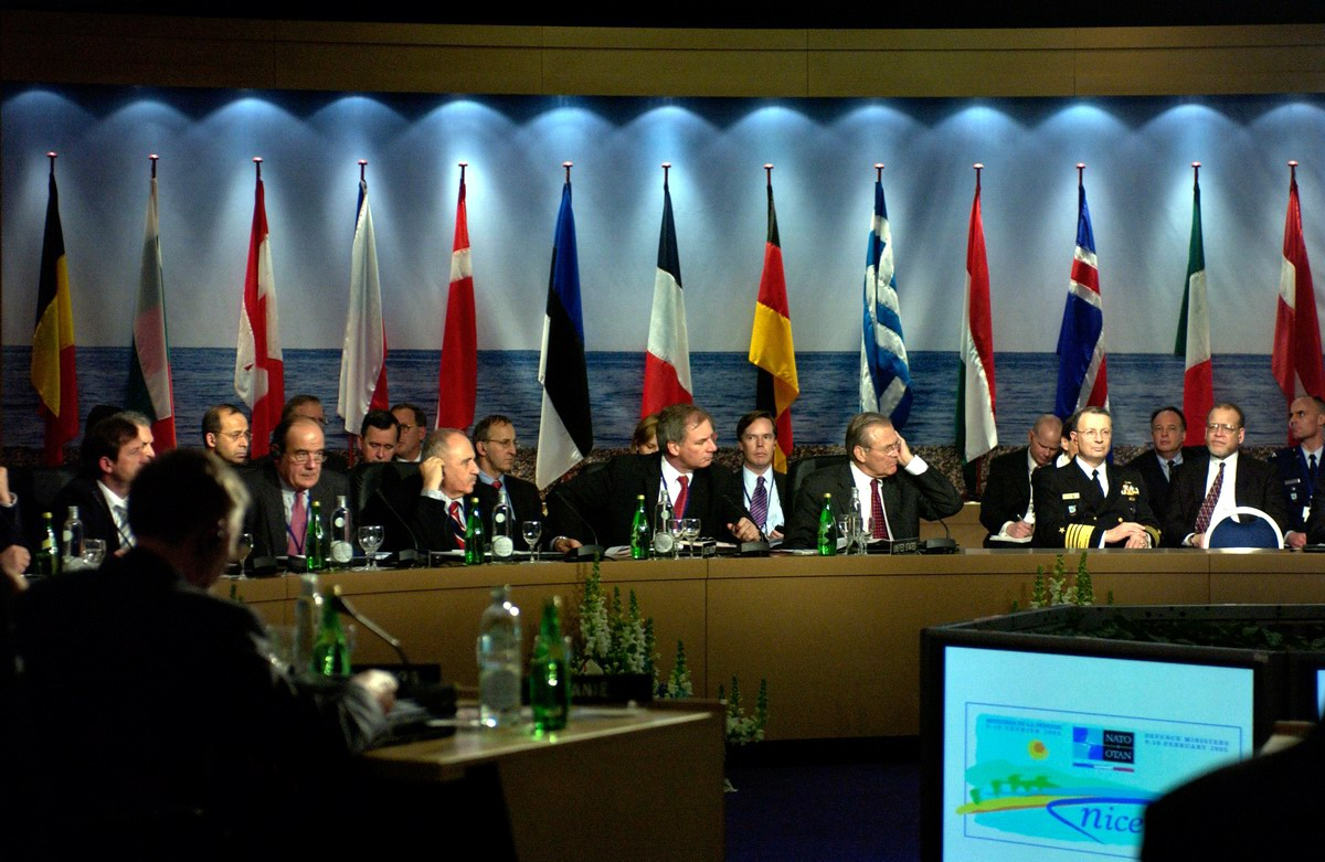 NATO conference of defence secretaries, held in Nice, 2005